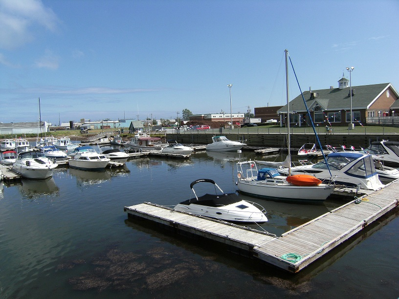 Picture of Shippagan Marina